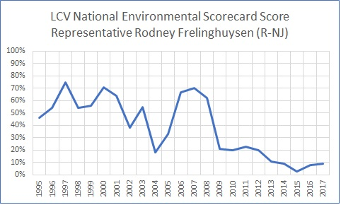 Graph of League of Conservation Voters national Scorecard scores for Rodney Frelinghuysen (R-NJ), 1995-2017